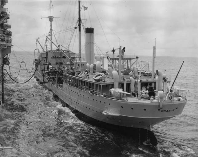 Stern view of the U.S. Navy fleet oiler USS Brazos (AO-4) while refueling the aircraft carrier USS Yorktown (CV-5) in mid-Pacific, July 1940.